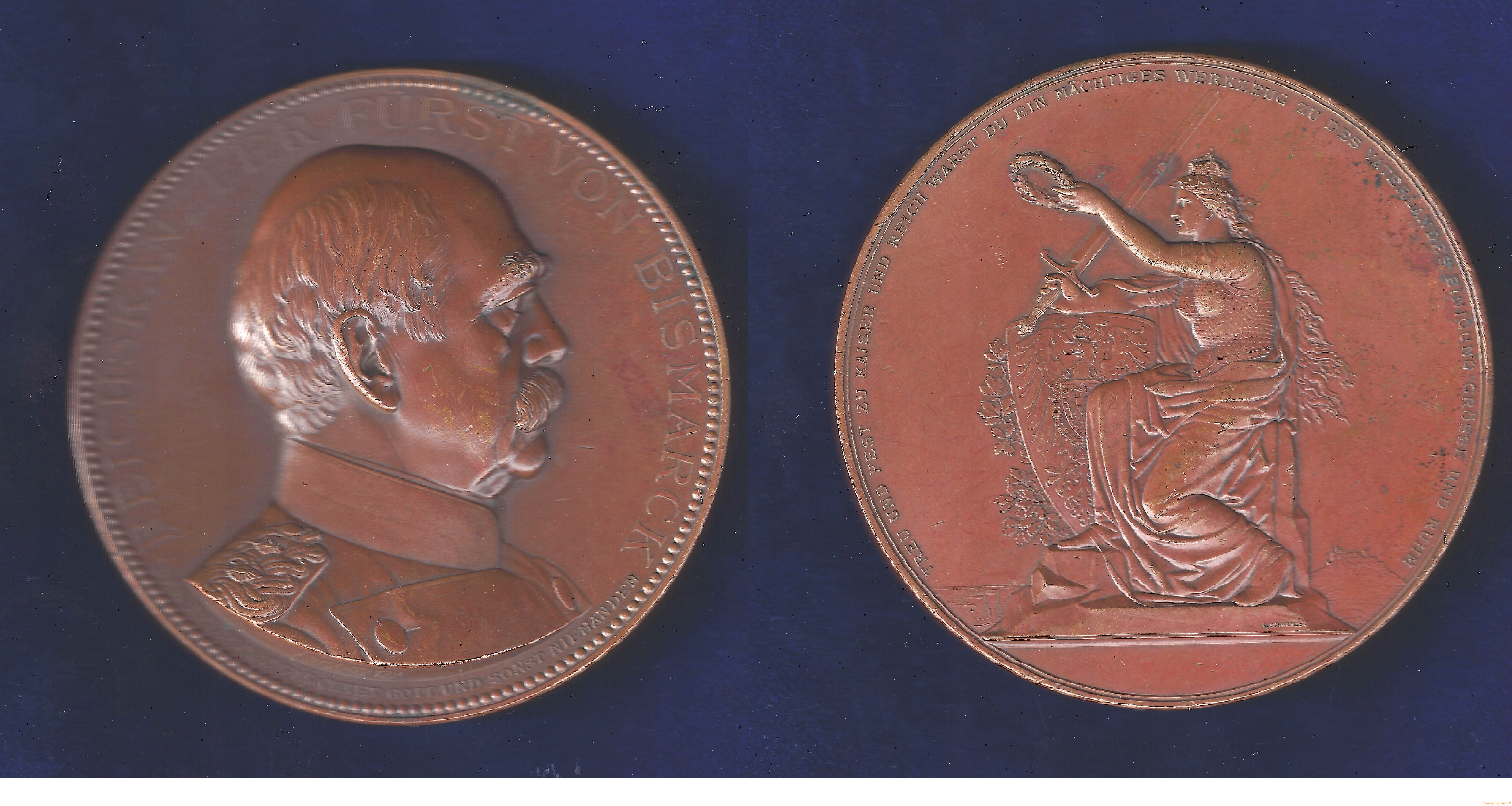 German Medal by Schwenzer 1898 (ND) commemorating Bismarck's Death. Bronze medallion d. = 74 mm. Bismarck, Otto Graf, 1815 Schönhausen (Elbe) -1898 Friedrichsruh Head r., surrounding: "REICHSKANZLER FÜRST VON BISMARCK DER DEUTSCHE FÜRCHTET GOTT UND SONST NIEMANDEN"/ L. sitting crowned Germania holding a sword, and a reef in front of the German Imperial shield. Curved above: "TREU UND FEST ZU KAISER UND REICH WARST DU EIN MÄCHTIGES WERKZEUG ZU DES VATERLANDES EINIGUNG GRÖSSE UND RUHM". Forrer VIII, p. 200-201; Bennert 584. Artist: Schwenzer, Karl, 1843 Löwenstein (Württemberg) - 1904 Stuttgart. Editor: B.H. Mayer, Pforzheim Condition: EXTREMELY FINE+.